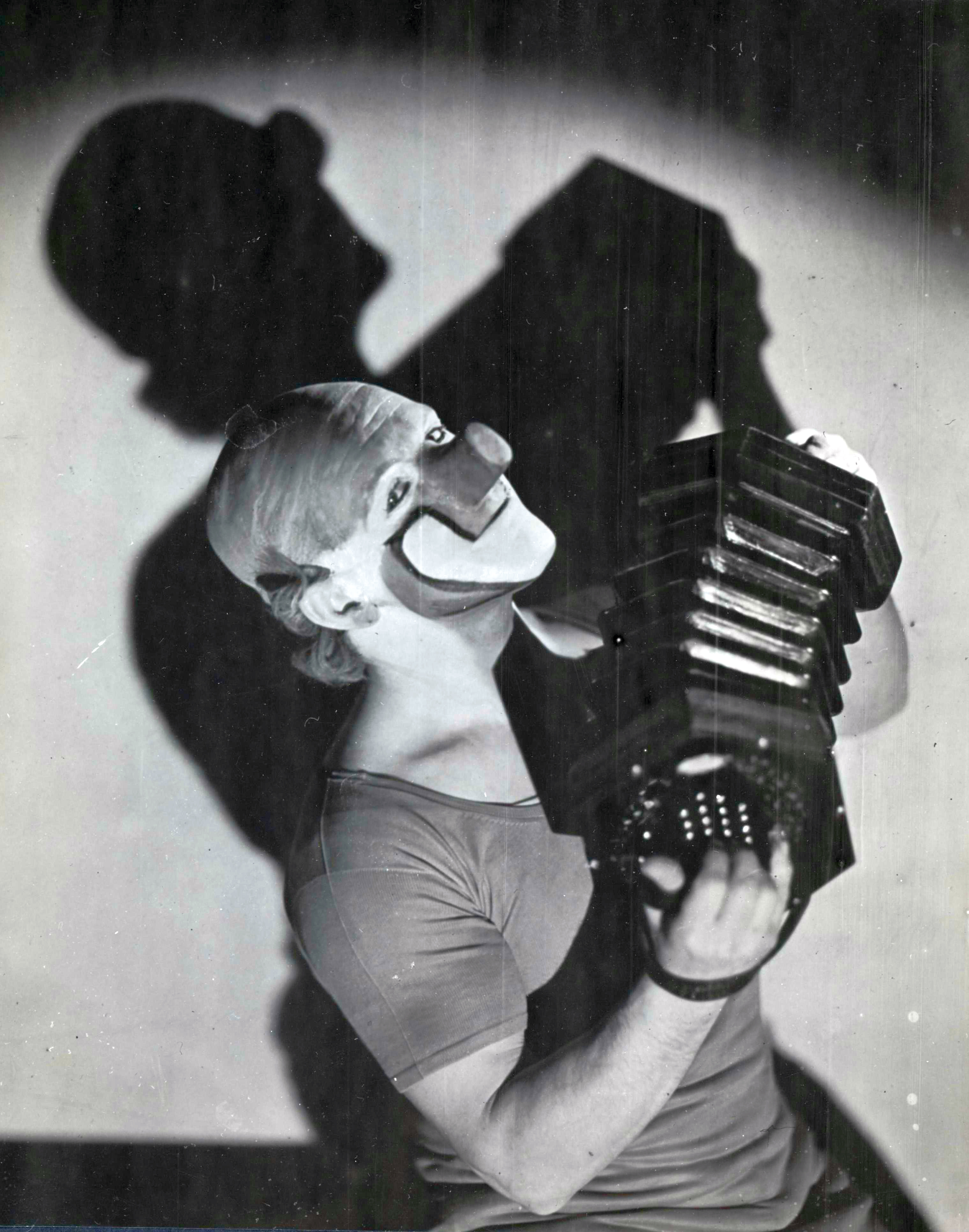 Clown Charlie Rivel. Photograph by unknown photographer of Stapf BIlderdienst (1943)